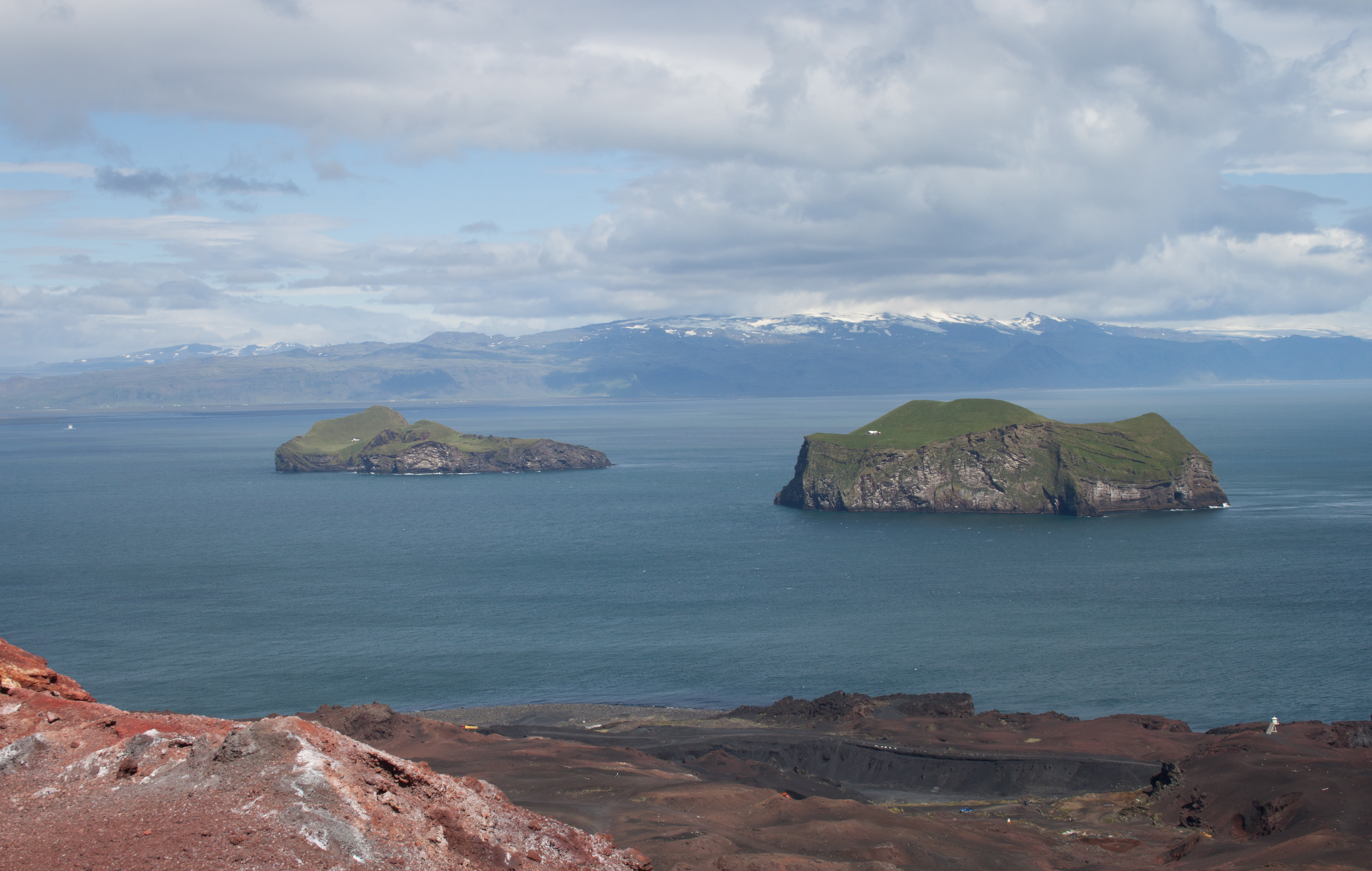 View from the top of the Eldfell; in the background the islands of Elliðaey and Bjarnarey and the Eyjafjallajökull on the mainland